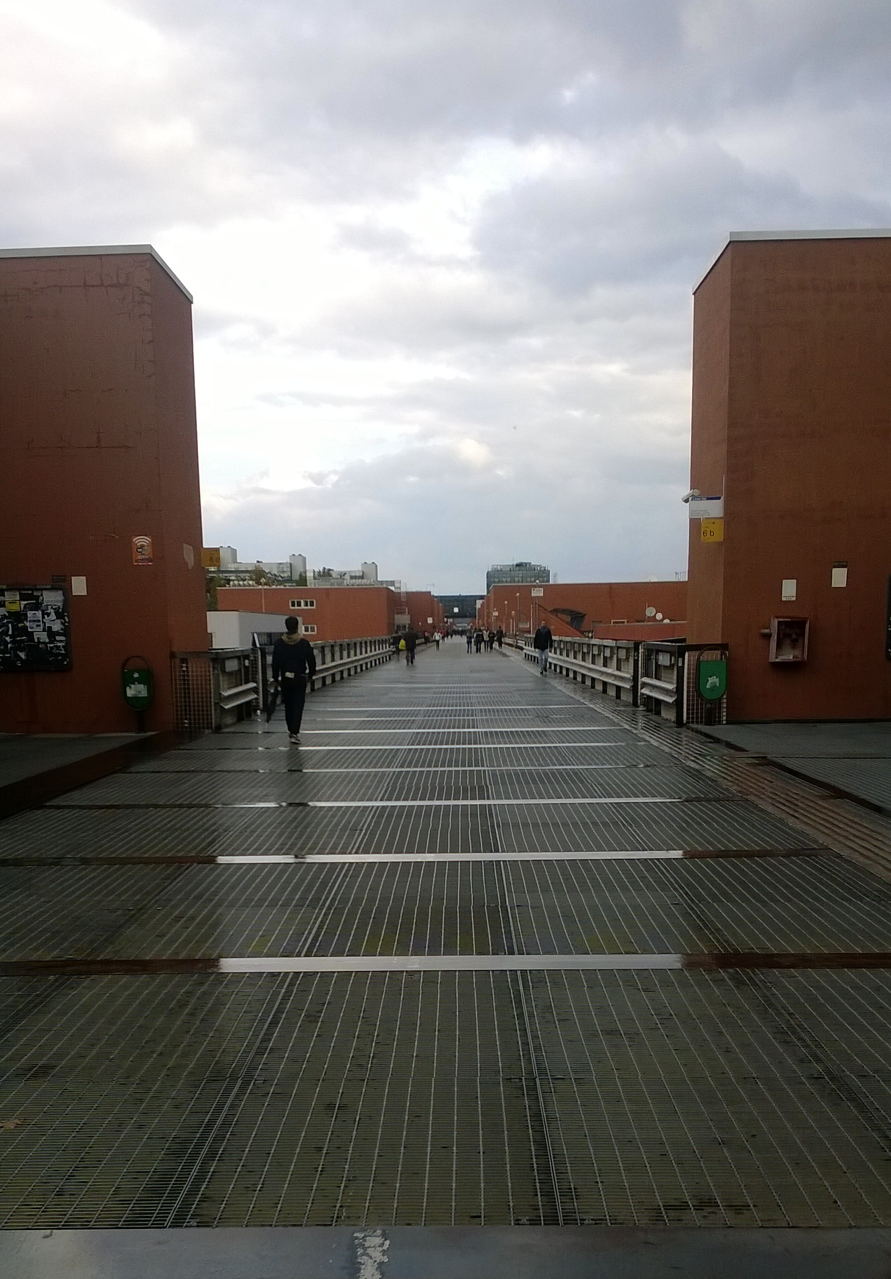 Vista del ponte Pietro Bucci. Da notare i cubi disposti lungo il ponte.